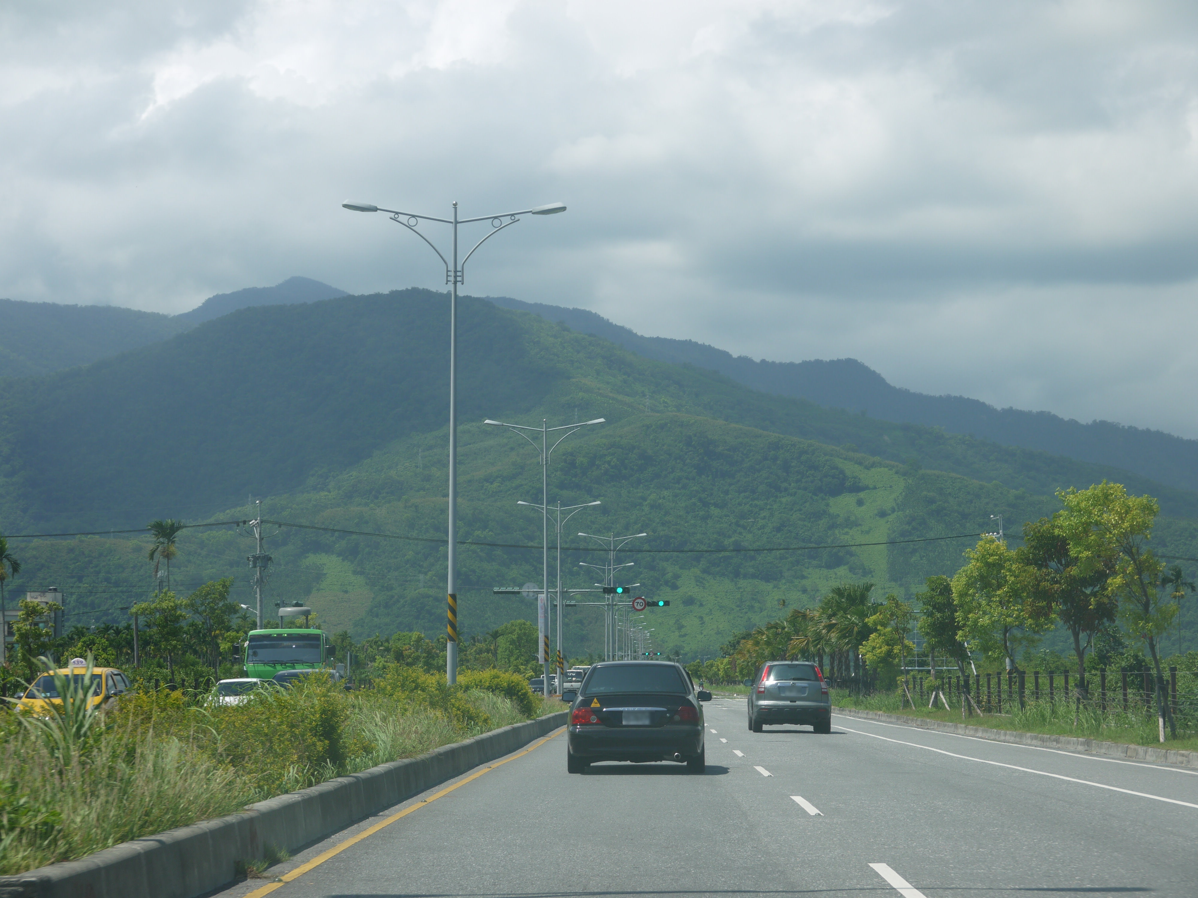 花蓮縣鳳林鎮 台9線花東縱谷公路 Provincial Highway No. 9(Fenglin,Hualien)